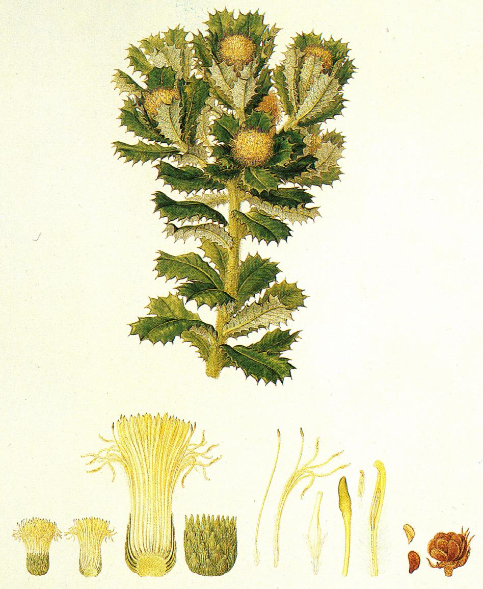 This is an painting of Banksia sessilis by Ferdinand Bauer, based on a drawing by him of material collected at King George Sound, New Holland, in December 1801.